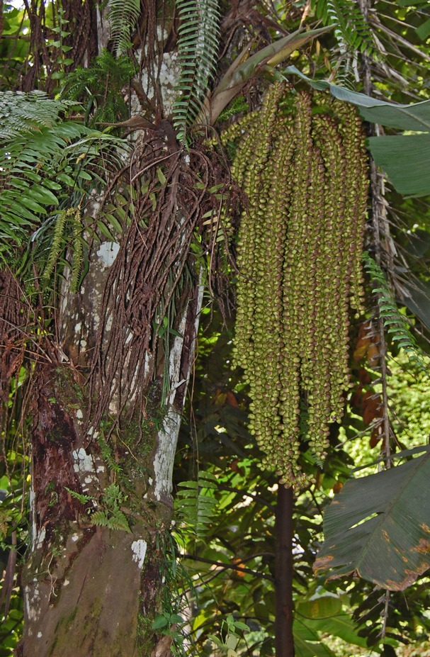 Arenga pinnata, female inflorescence. From Bogor, West Java, Indonesia